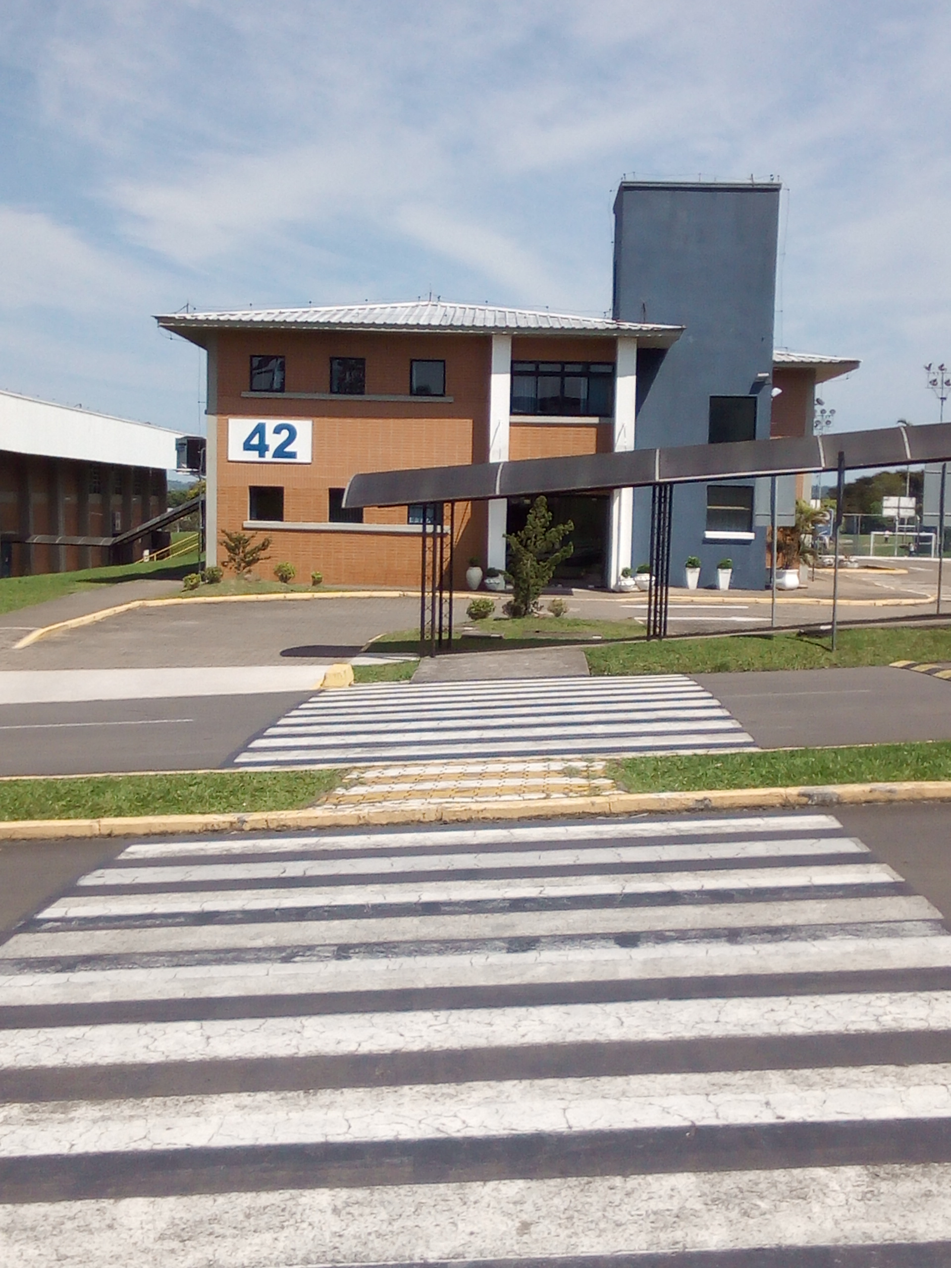 Building 42, Universidade de Santa Cruz do Sul